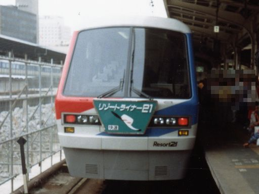 Izu Kyuko Railway type 2100 "Resort Liner 21" At Tokyo Sta. 1988.05.03 Photo by Cassiopeia_sweet.